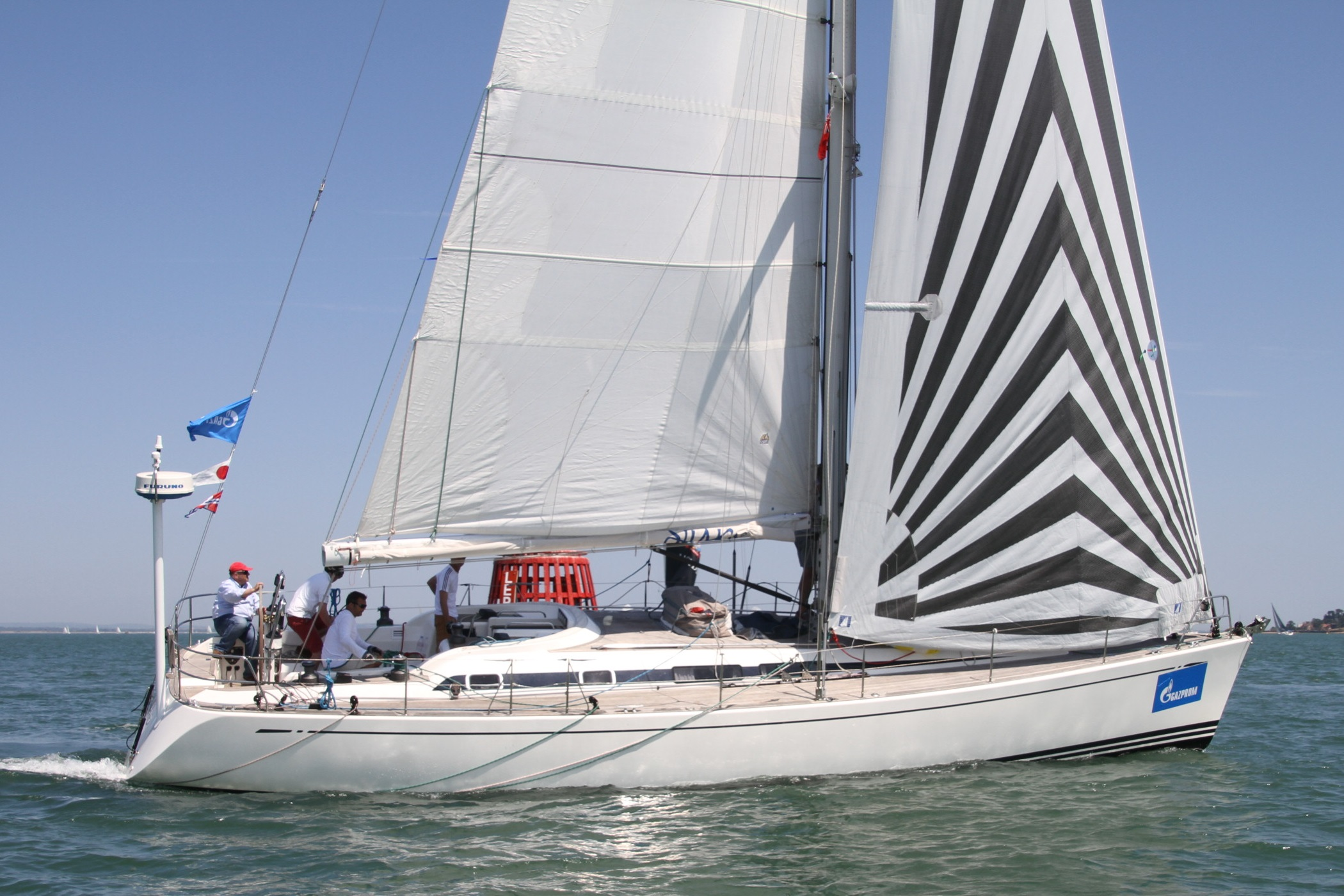 Swan 46 Mk3 GER5822 Shaka at the 2013 Swan Europeans in Cowes (GBR) held by the Royal Yacht Squadron